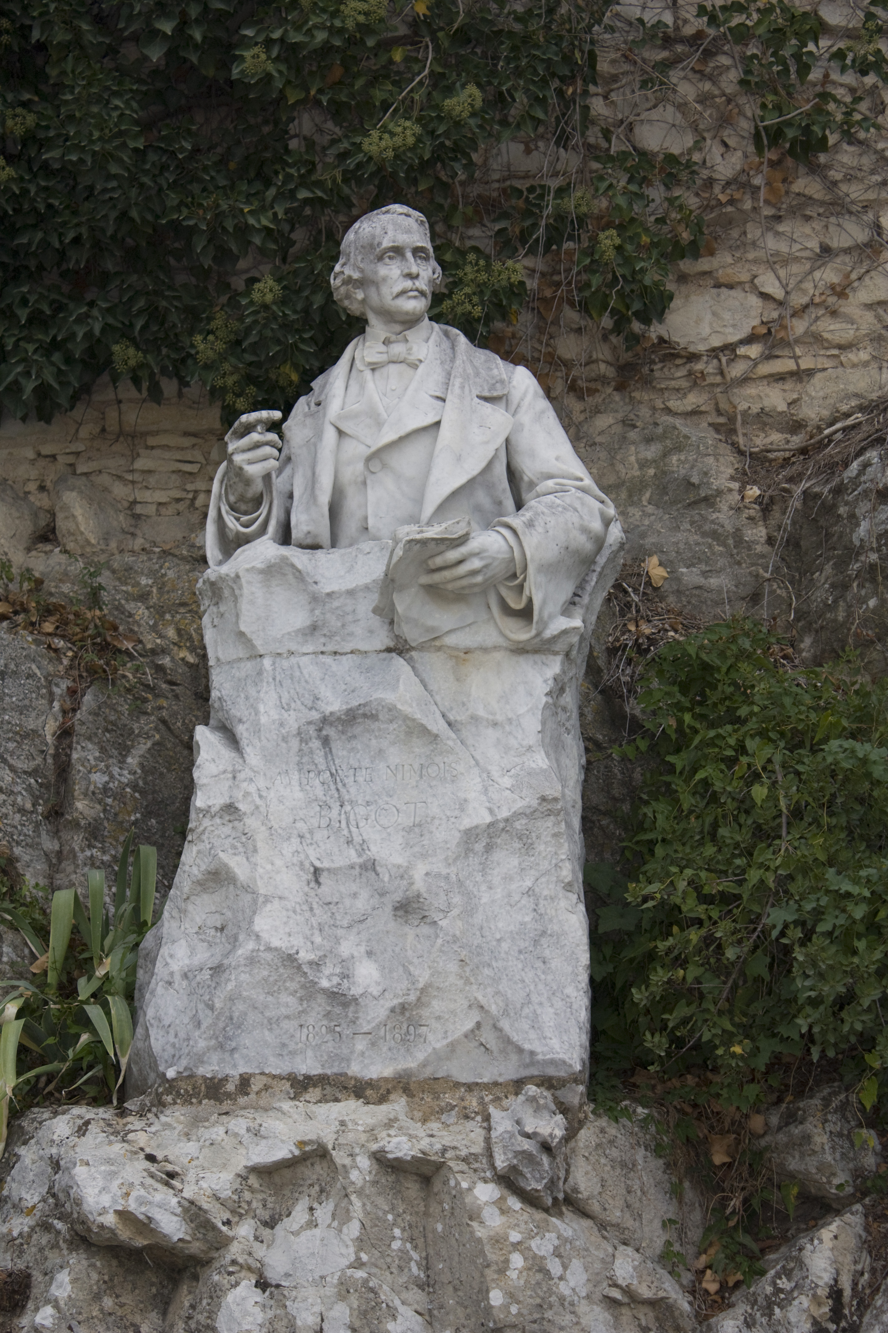 Statue of the poet, in Languedoc language, Antoine Bigot (first quarter of the twentieth century).